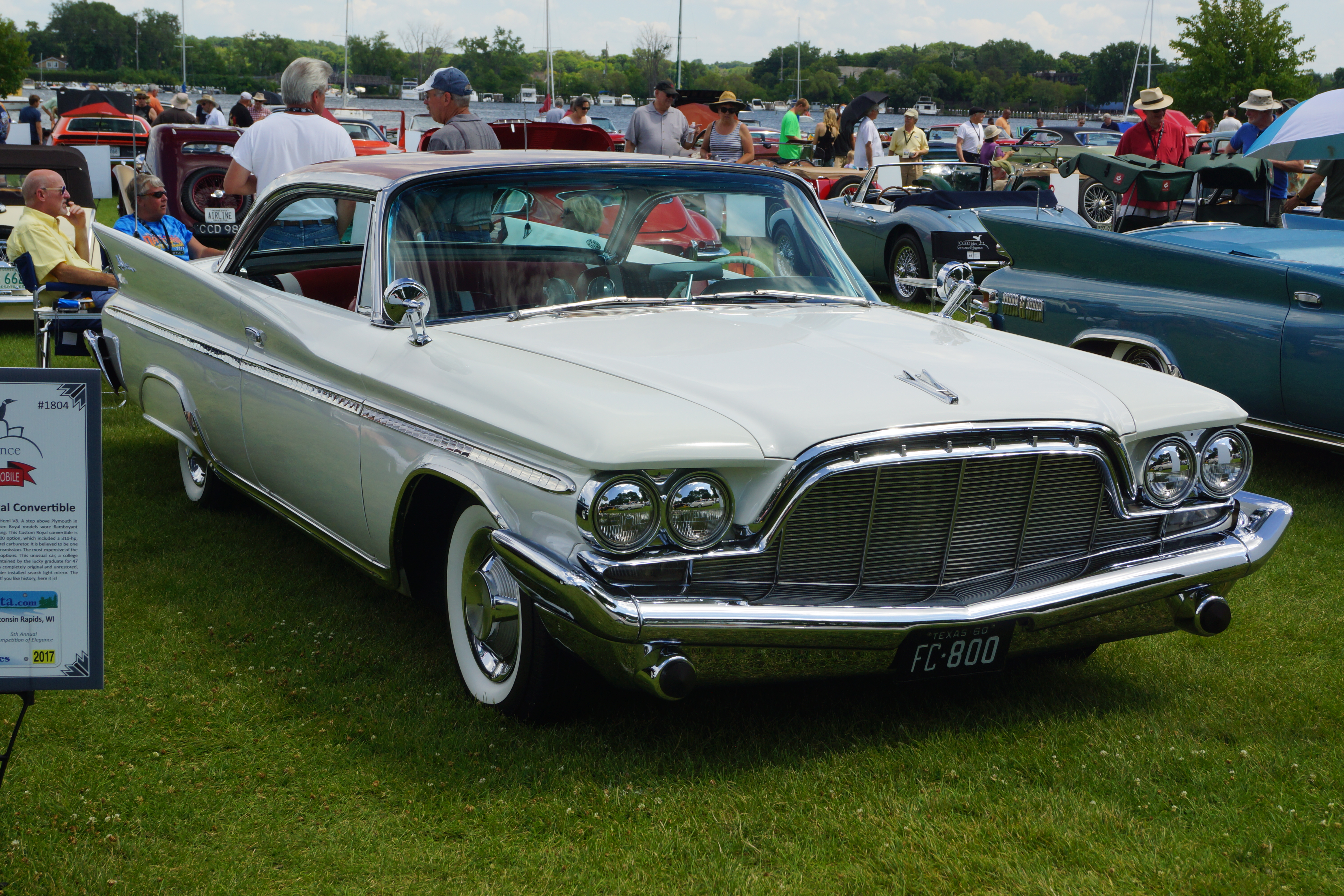 10,000 Lakes Concours d'Elegance Excelsior Commons Excelsior, Minnesota July 30, 2017 ----- Pictures of previous years 10,000 Lakes Concours d'Elegance Click here for more car pictures at my Flickr site. Or here for my Car Crazy Tumblr site. Or on Twitter @DVS1mn.